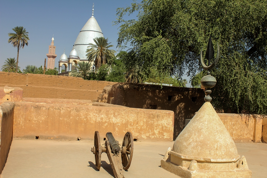 Cupula of the original Mahdi's Tomb